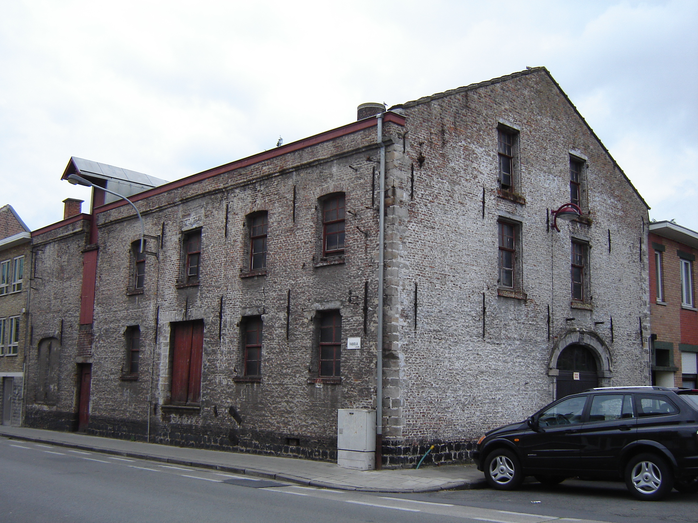 Former oil mill in Menen. Menen, West Flanders, Belgium